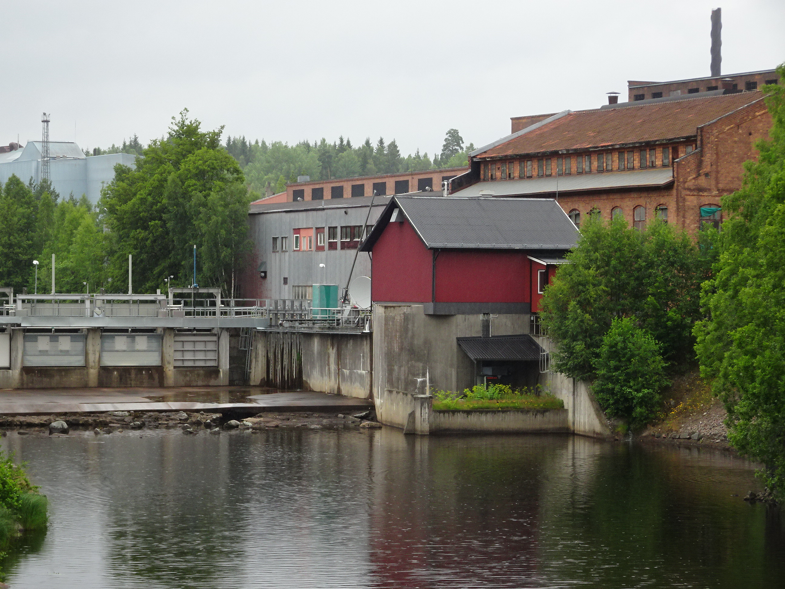 Fagersta hydroelectric power station in the river Kolbäcksån, in Fagersta bruk in Fagersta, Sweden.